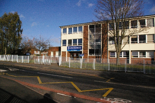 St. Thomas More Catholic High "A Specialist School for Maths & ICT" declares a sign on the school